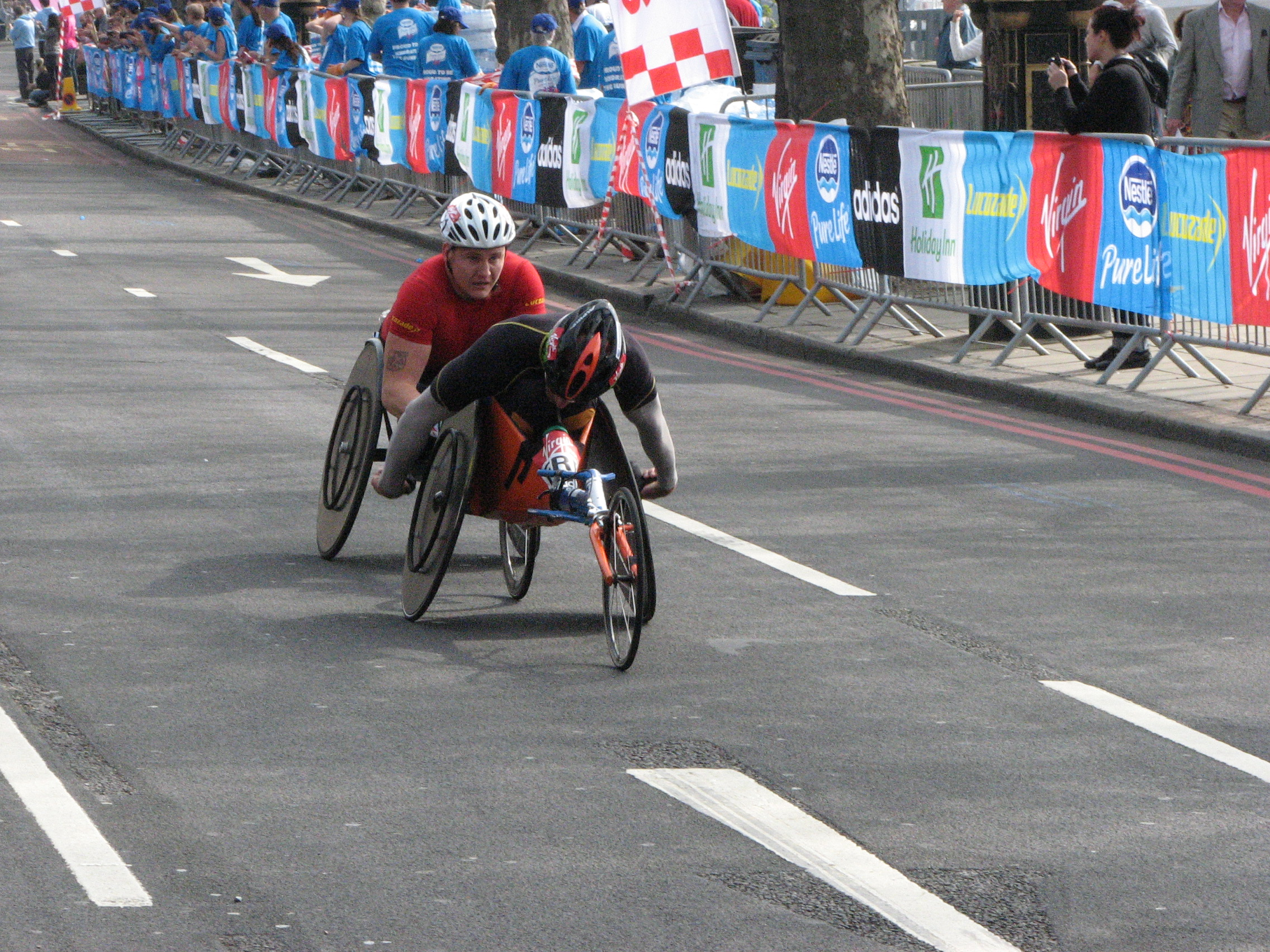 Virgin London Marathon, 17 April 2011. David Weir in Heinz Frei's slipstream with 1.5 miles to go. At the finish Weir outsprinted Frei on the Mall to take his fifth London win in 1:30:05. Frei was second in 1:30:07. Taken from 24 and a half miles, at the (western) junction of Victoria Embankment and Temple Place, very close to the Walkabout.